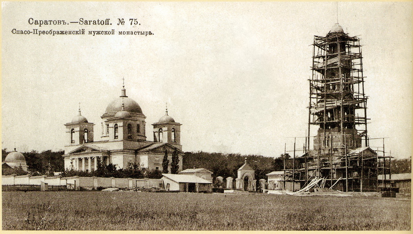 Spaso-Preobrazhensky Monastery (Saratov)